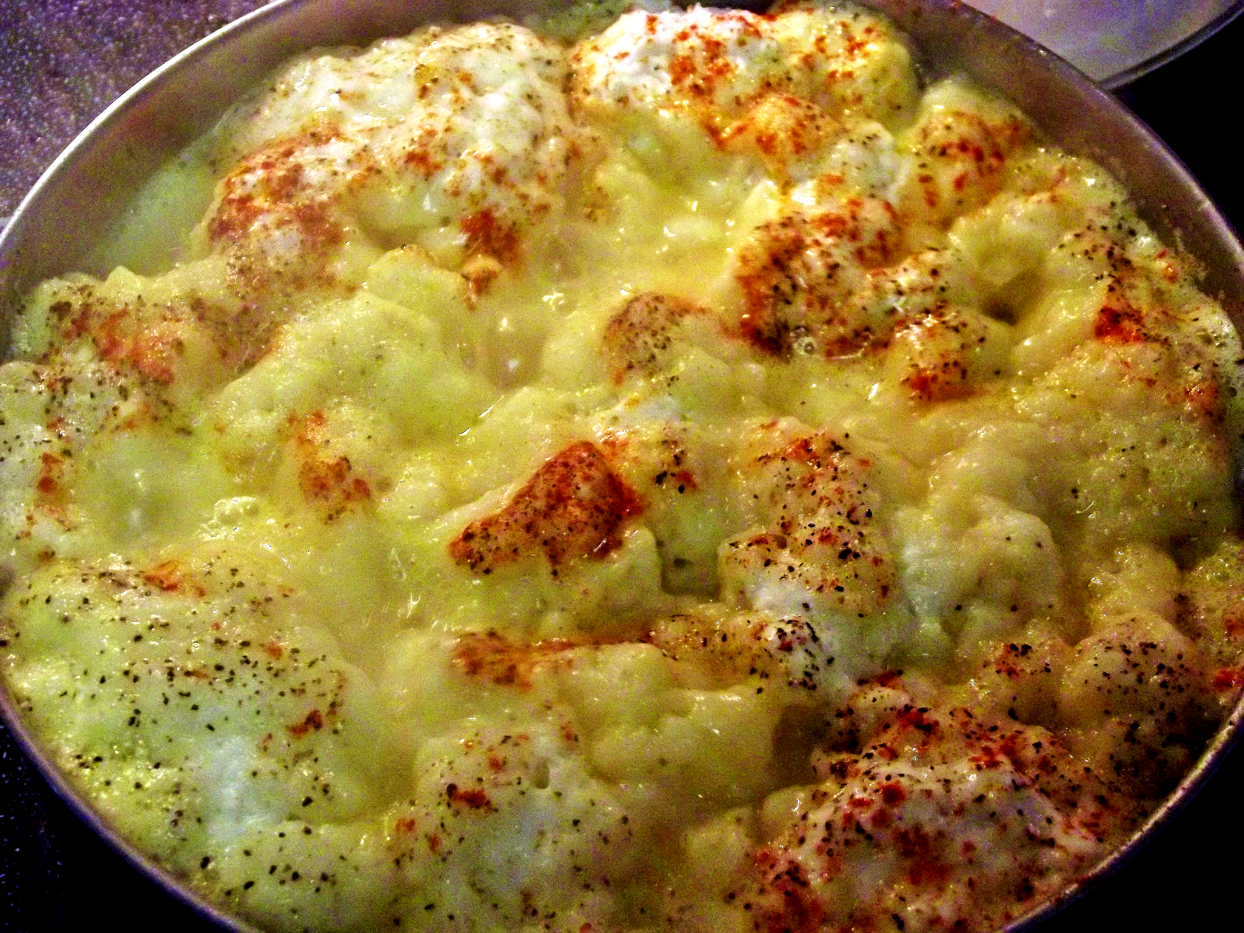 Chicken and dropped dumplings.